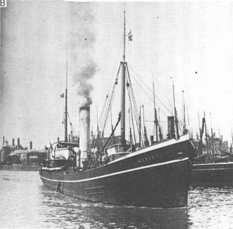 The SS or RV Huxley, the first research vessel used by Cefas and the Marine Biological Association of the United Kingdom. Shown in 1905, departing Lowestoft on an international cruise.